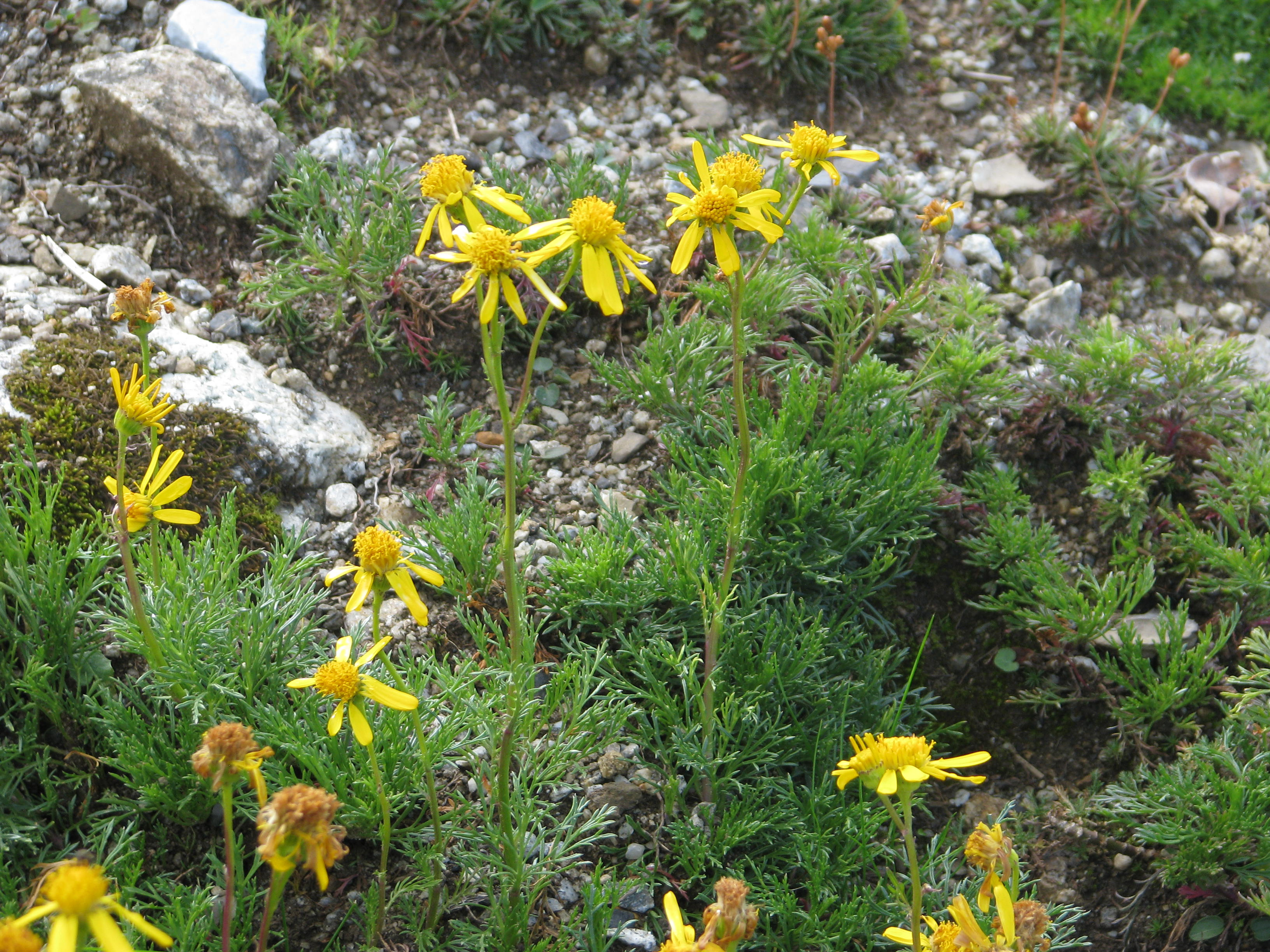 Nobody likes or trusts Senecio it seems, but I really like this one. At Schynige Platte, Switzerland